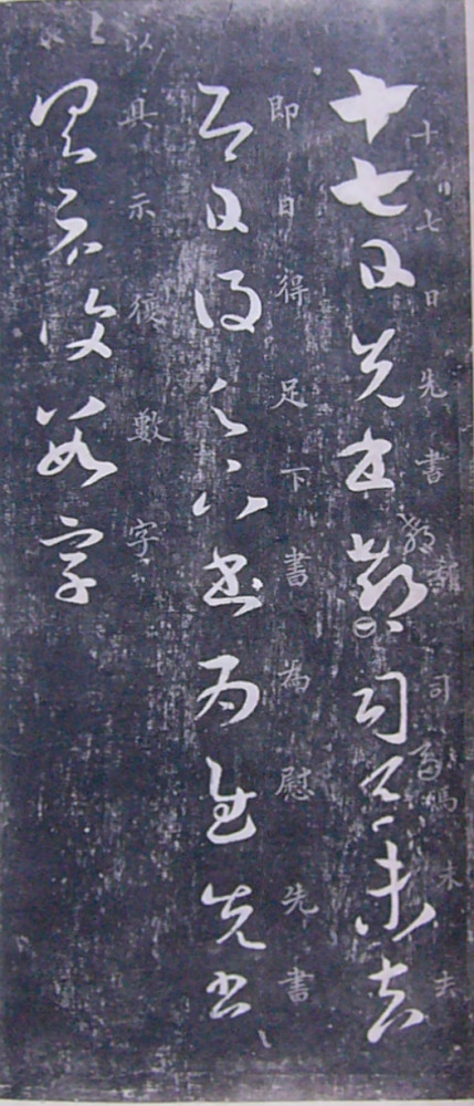 Rubbing of Shiqi Tie (opening part): calligraphy by Wang Xizhi(ACE303?-361), China